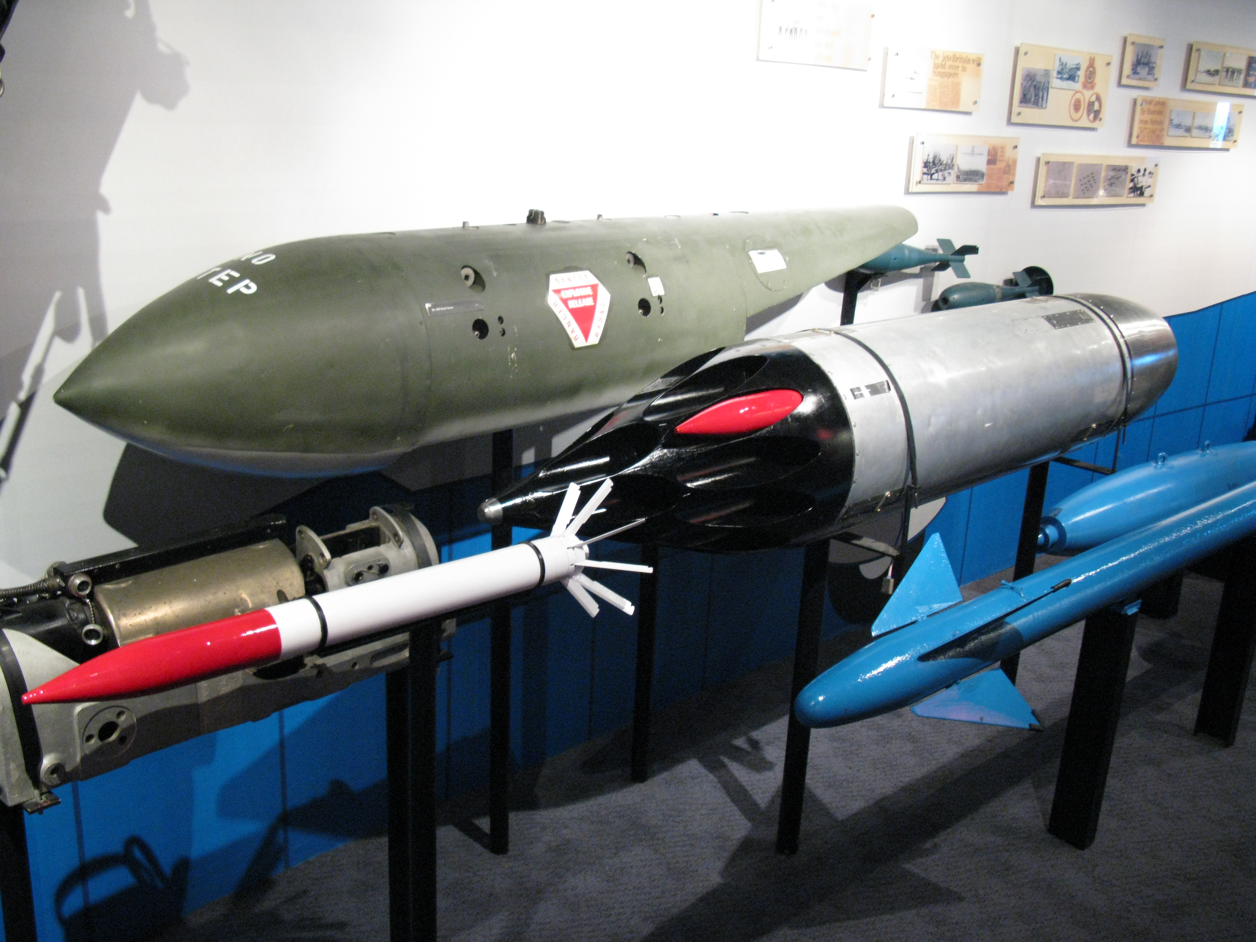 Snapshot of a Matra Type 155 rocket launcher pod with two red-tipped 68mm dummy rocket projectiles, photo taken at RSAF Museum, Paya Lebar Air Base, Singapore.